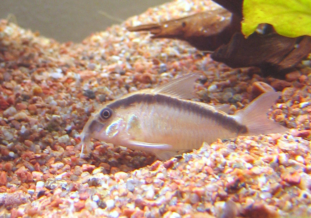 Skunk cory (Corydoras arcuatus)